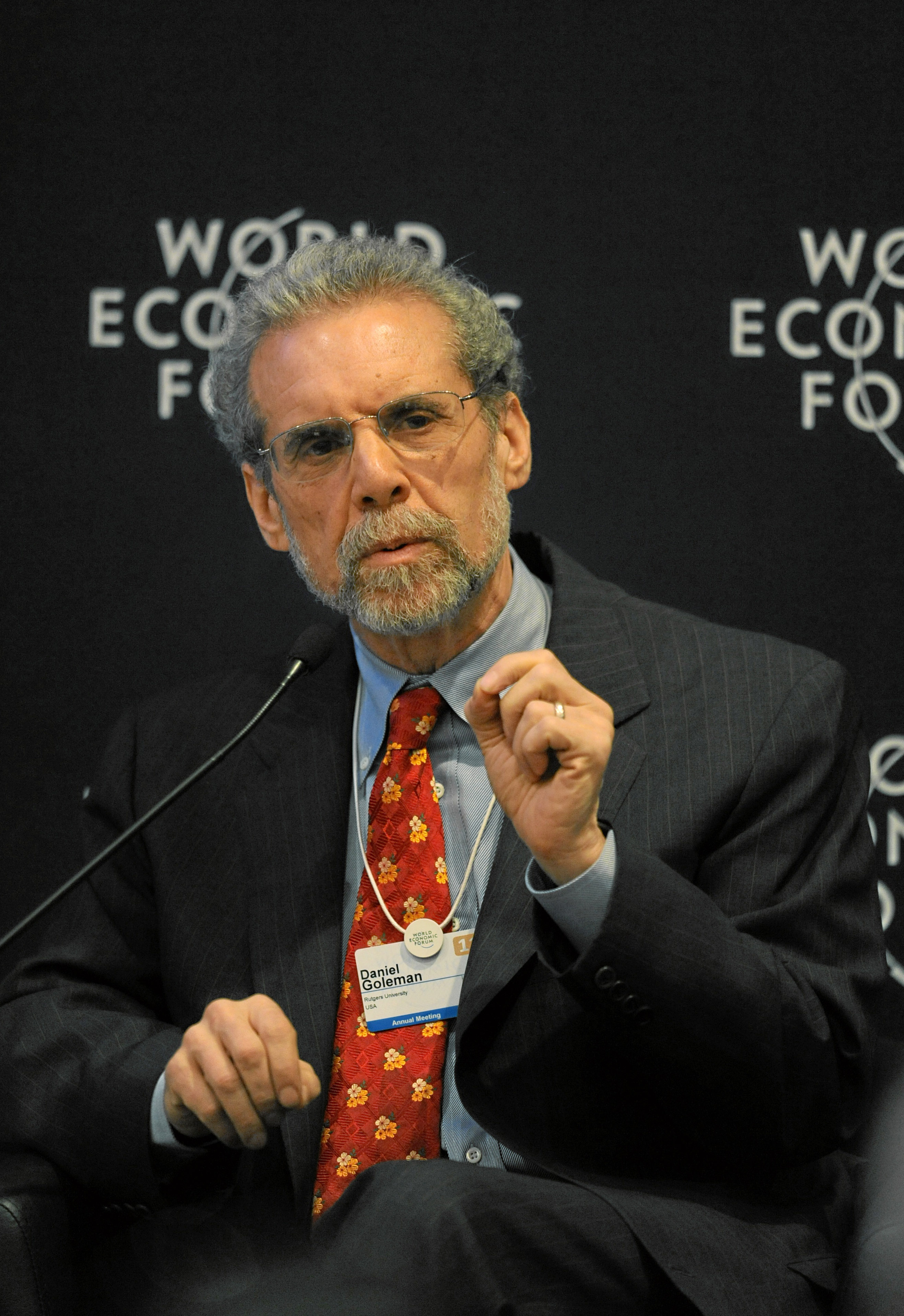 DAVOS/SWITZERLAND, 27JAN11 - Daniel Goleman, Co-Director, Consortium for Research on Emotional Intelligence in Organizations, Rutgers University, USA, speaks during the session 'The New Reality of Consumer Power' at the Annual Meeting 2011 of the World Economic Forum in Davos, Switzerland, January 27, 2011. Copyright by World Economic Forum by Michael Wuertenberg